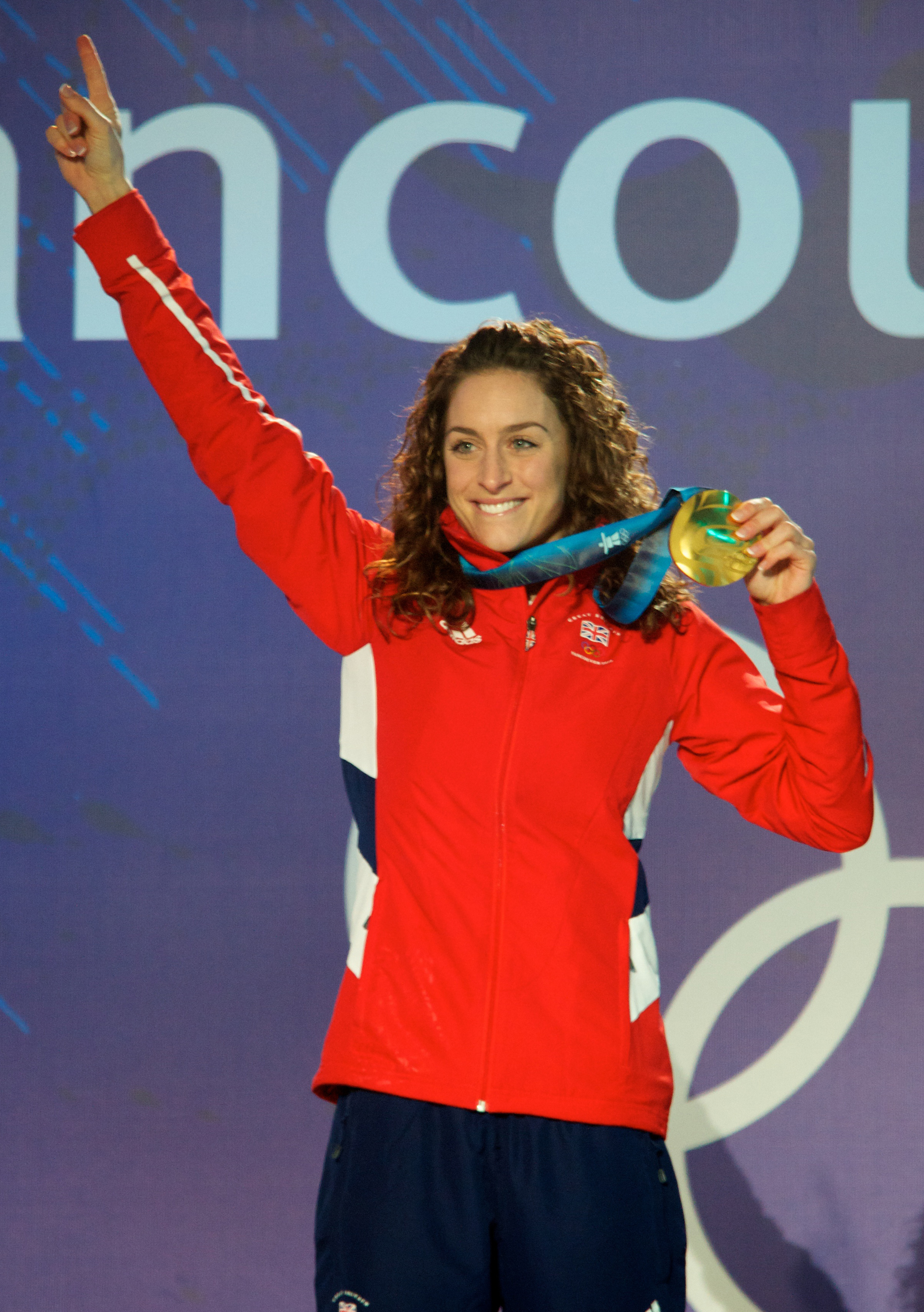 Amy Joy Williams (born 29 September 1982) is a British skeleton racer and Olympic gold medalist. The Medal Ceremony at Whistler on Day 9 of the Vancouver 2010 Winter Olympics.